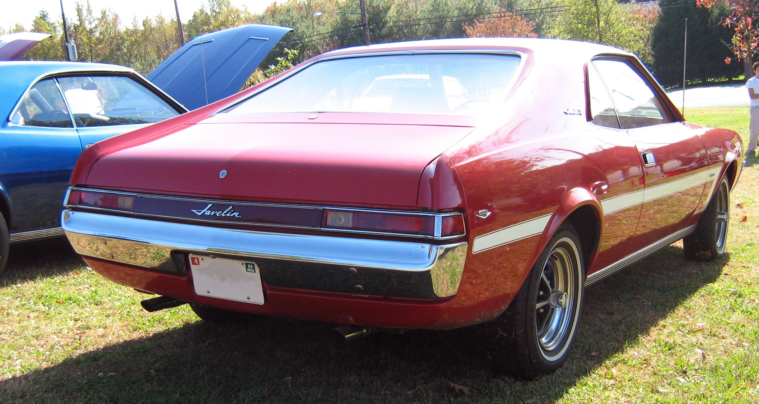 1969 Javelin SST model by American Motors (AMC) - a "pony car". This two-door hardtop is finished in Matador Red (paint code P39) with the optional "C" stripe in white. This car also has the "Magnum" styled steel wheels.